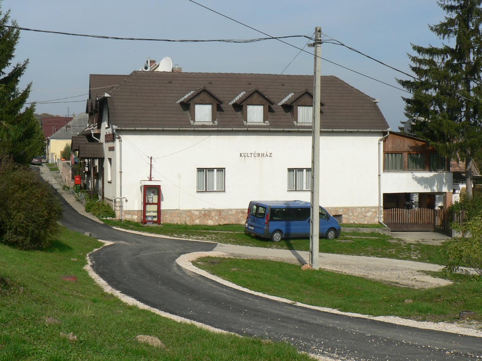 A dunaszentmiklósi községháza és kultúrház közös épülete